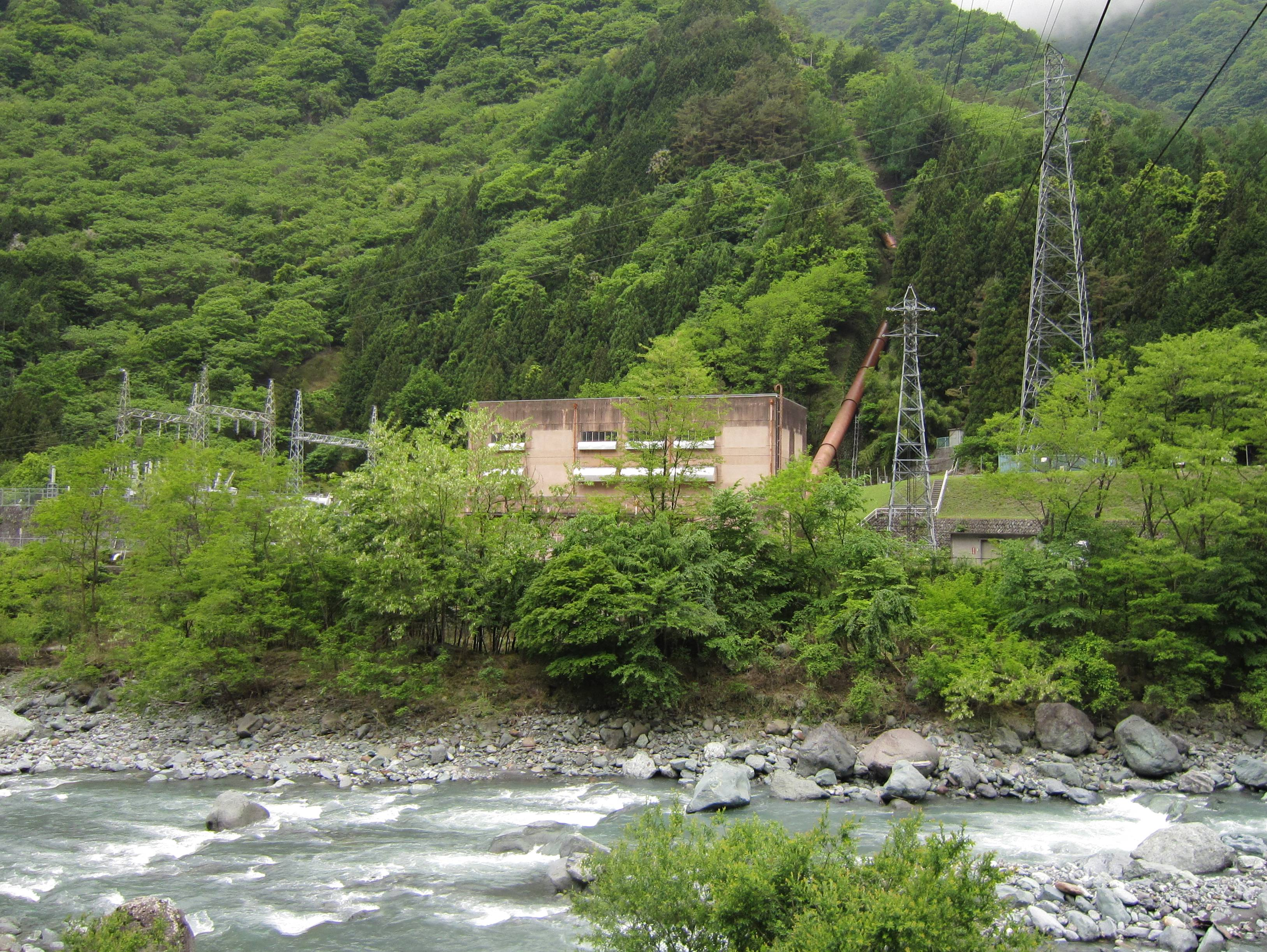 Nishiyama power station.